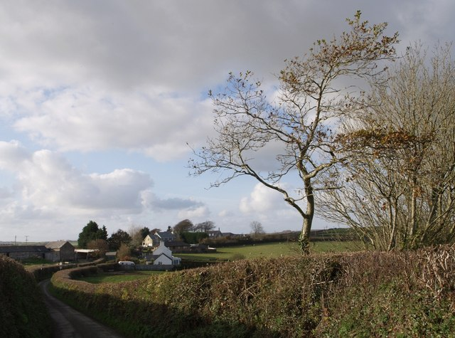 Boyton - the northern hamlet This part of Boyton lies some 400 metres away from the main part of the village around the church. On the left is Town Farm. Most of the buildings behind the white-gabled Boyton Villas are parts of the County Primary School. Taken from Underlane.